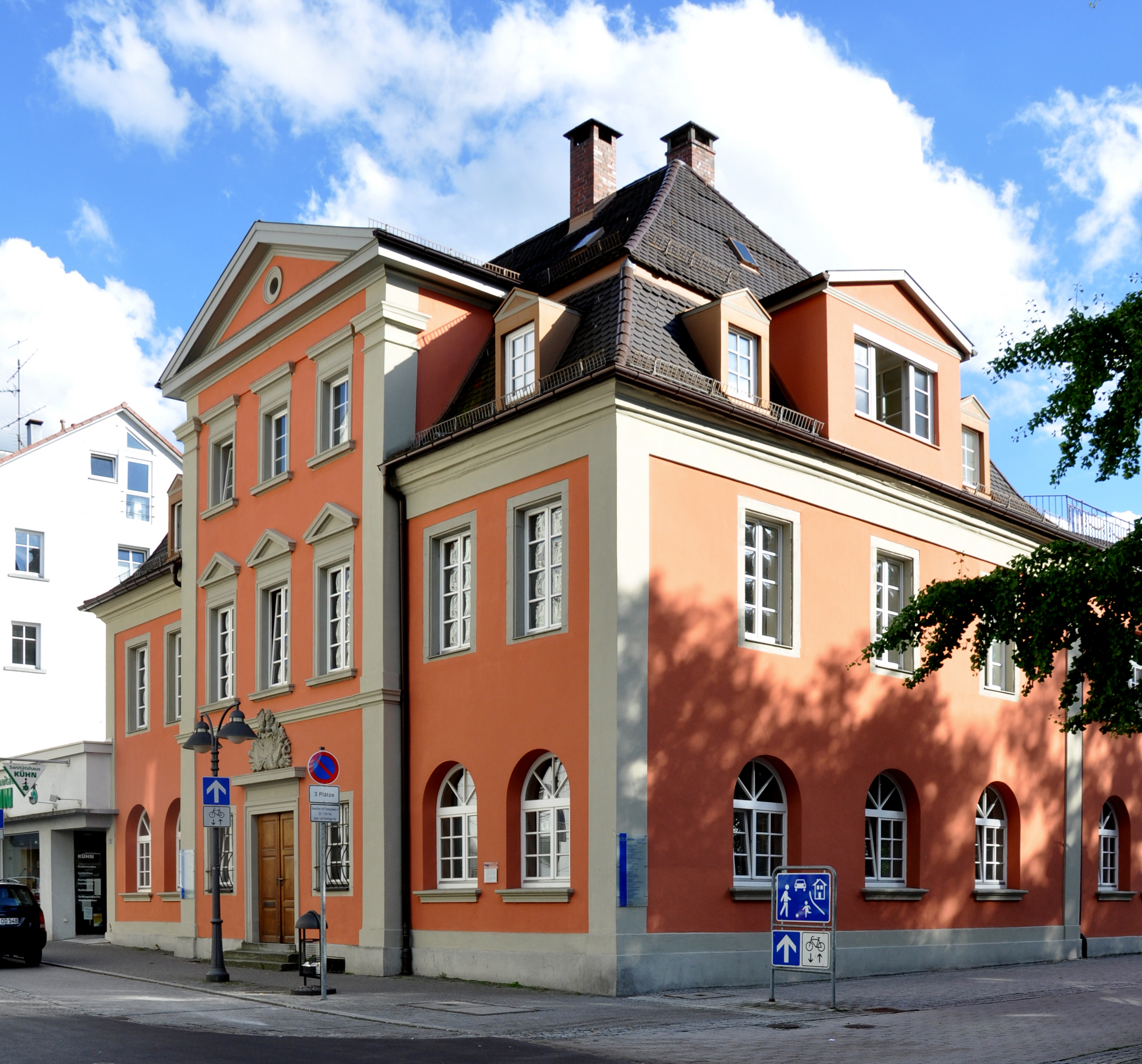 Altshauser Hof, house of the Teutonic Order Commandery Altshausen in the city of Ravensburg, possibly built by Johann Caspar Bagnato.